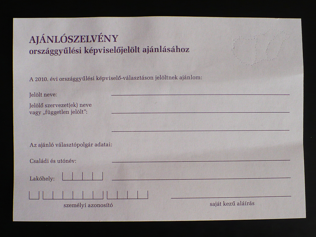 Proposal coupon for the Hungarian parliamentary elections of 2010, page 1